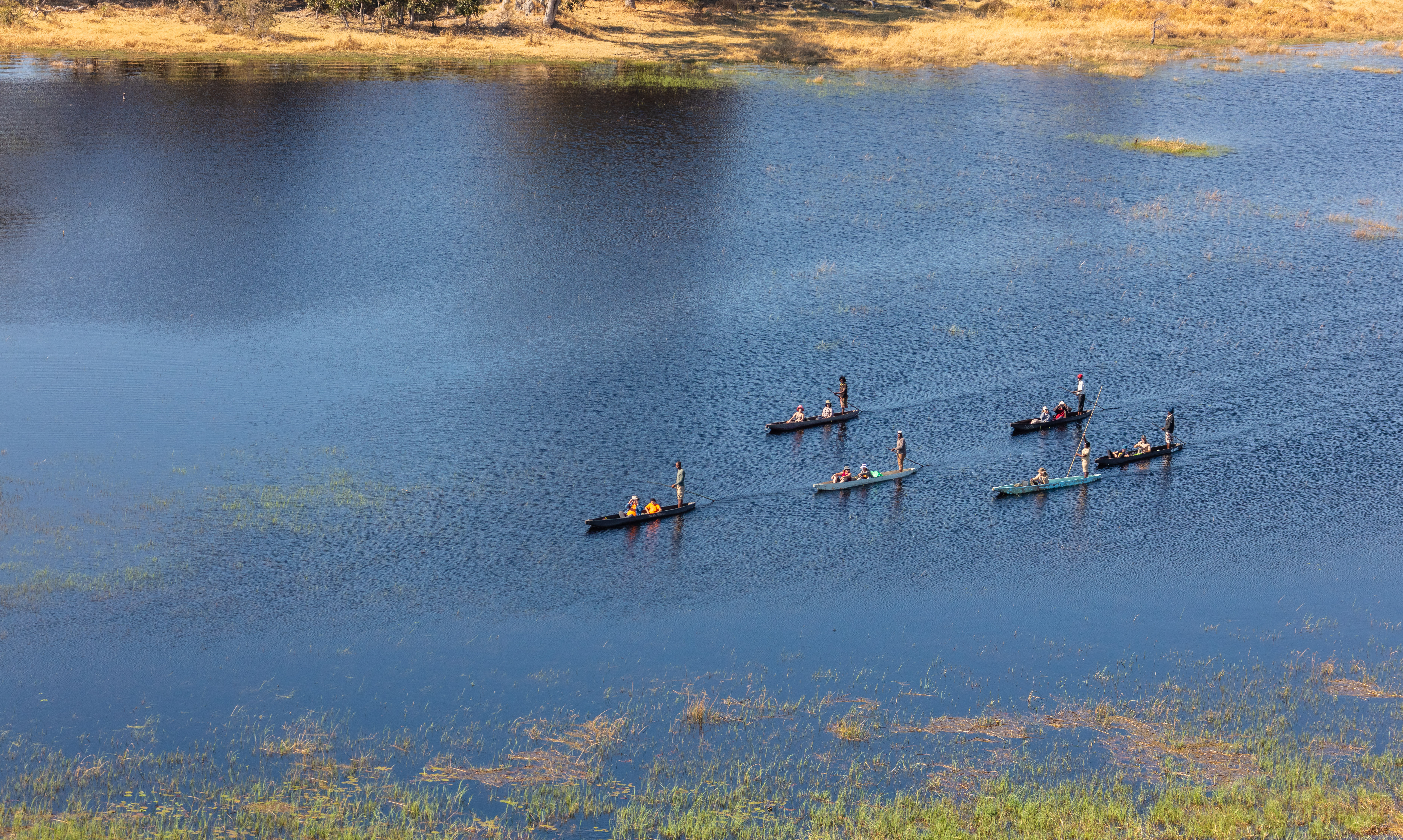 Aerial view of Okavango Delta, Botswana